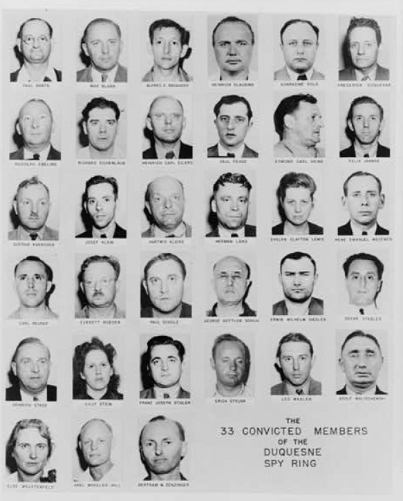 Thirty-three mug shot portraits of the Dusquesne spy ring; Duquesne is in the first row, far right.